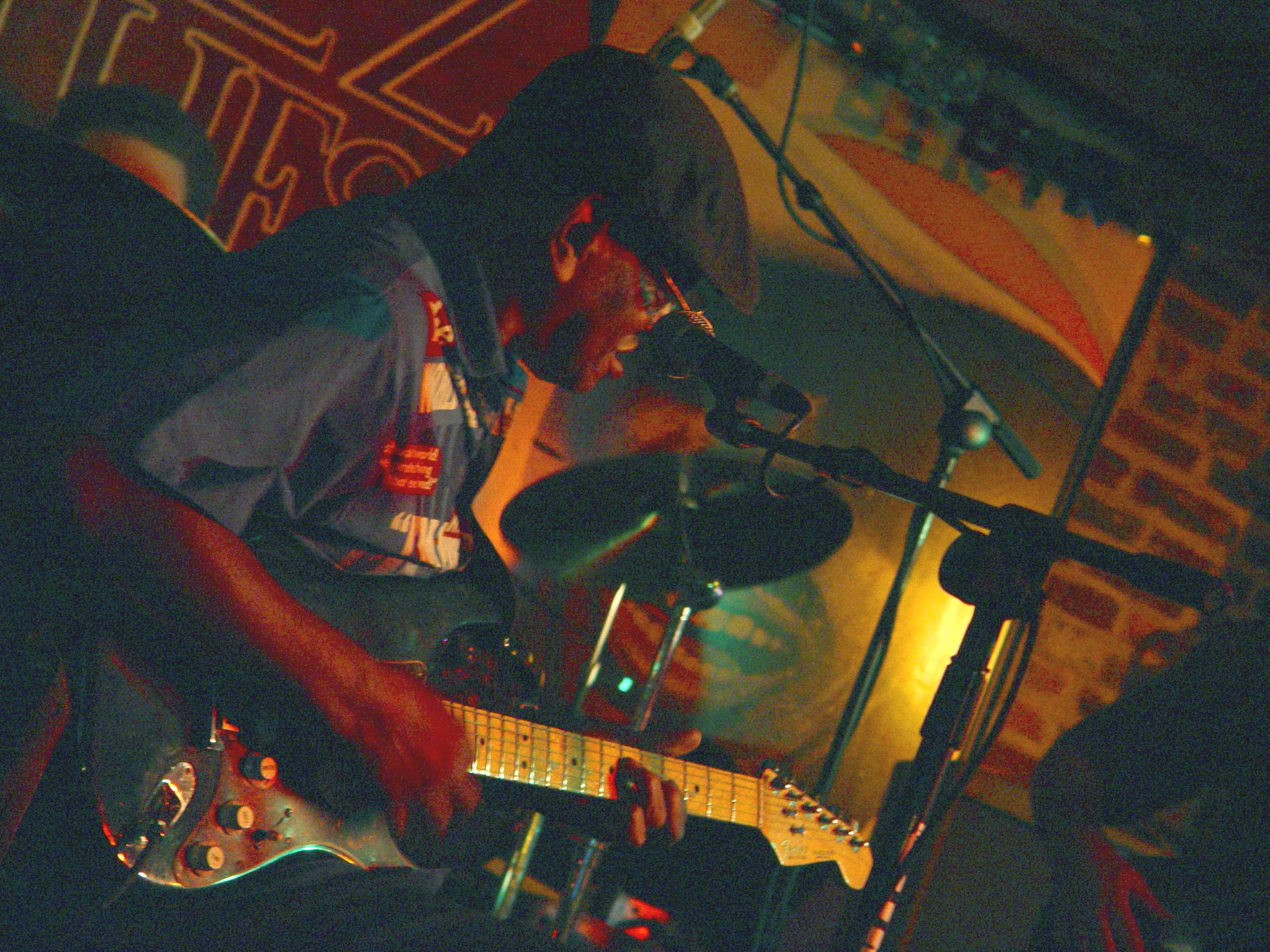 Bennie Smith playing with his band at BBs Jazz Blues and Soups 700 Broadway in St. Louis MO. U.S.A. Picture was taken circa October, 2004 at a birthday celebration for another St. Louis blues patriarch, Henry Townsend (note the shadow of the 'birthday' banner on the wall in the background). Of interest, in the background is a poster of bluesman Albert King, a St. Louis contemporary of Bennie Smith during Bennie's earlier years.